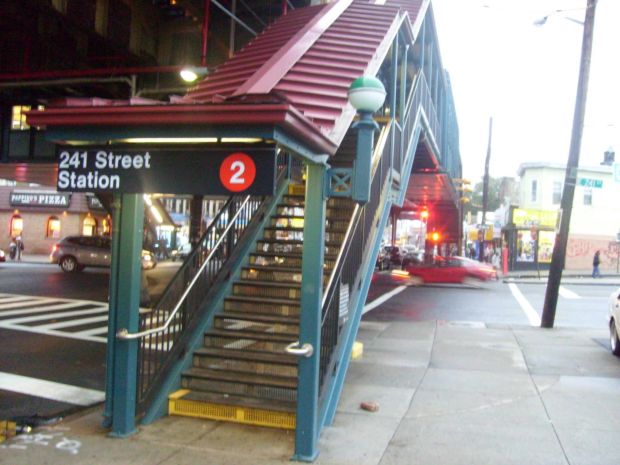 IRT White Plains Road Line, entry to the 241st Street, 2 Train station, in the bronx